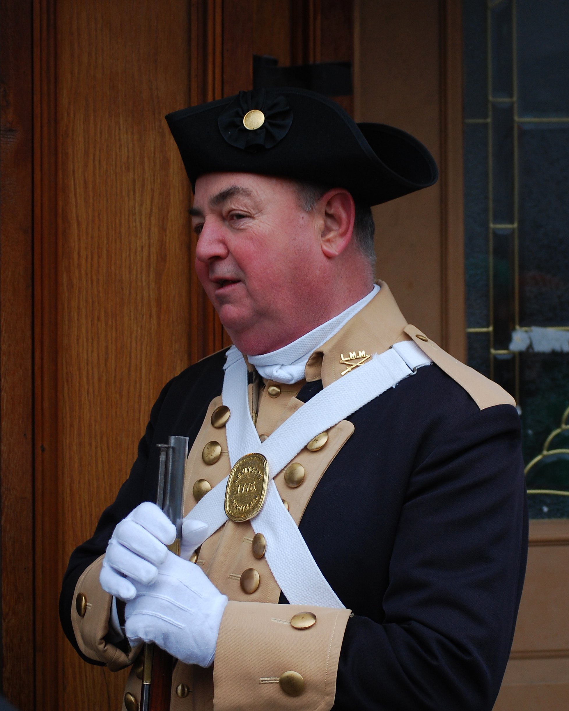 An American Revolutionary War reenactor at the 2008 Saint Patrick's Day parade in Boston.